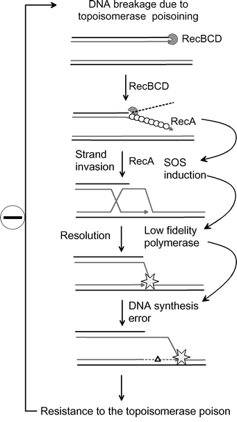 A model for SOS-dependent evolution to antibiotic resistance